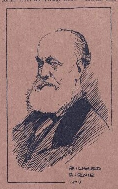 Australian barrister and writer Richard Birnie